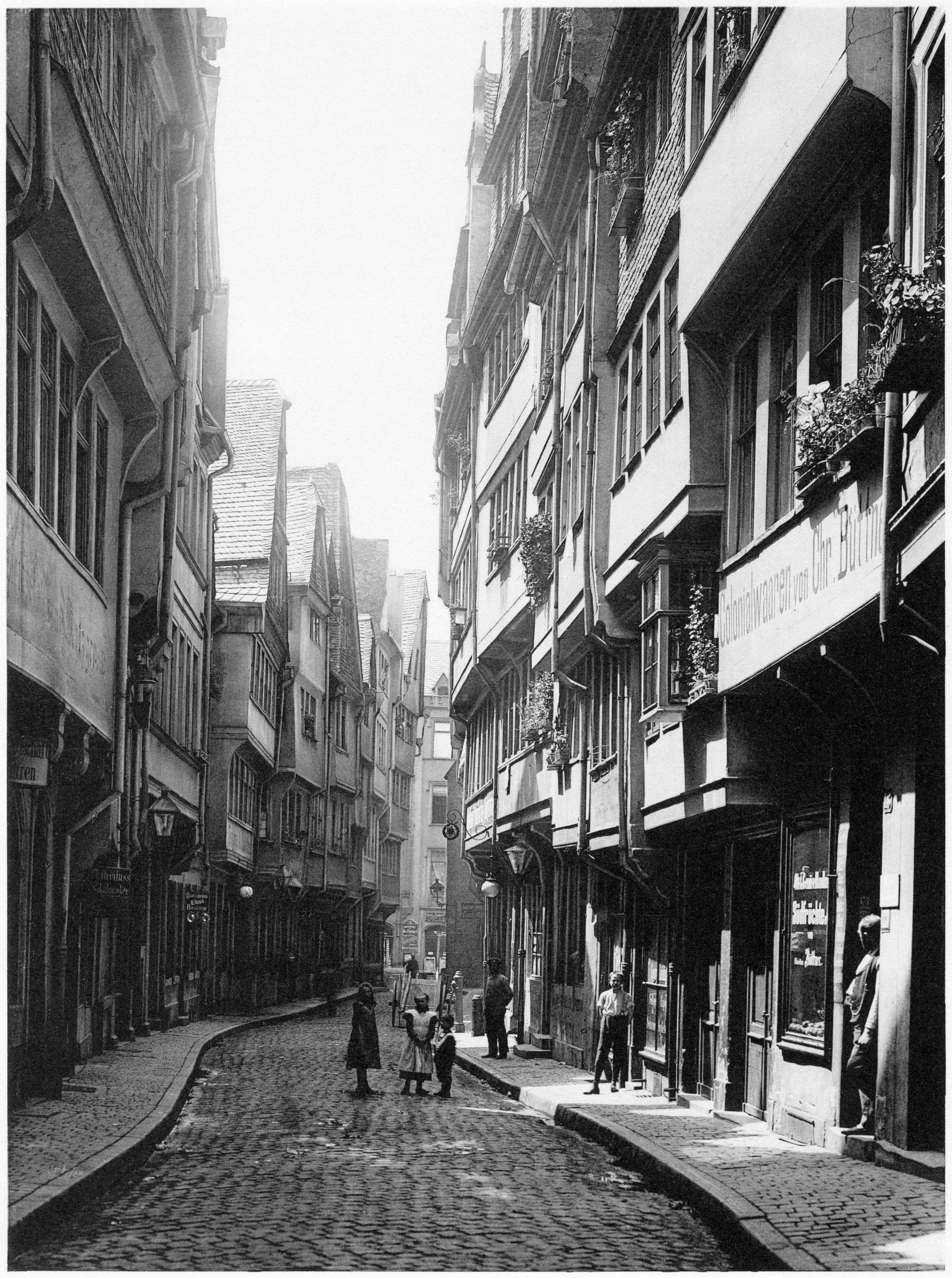 [Follows]